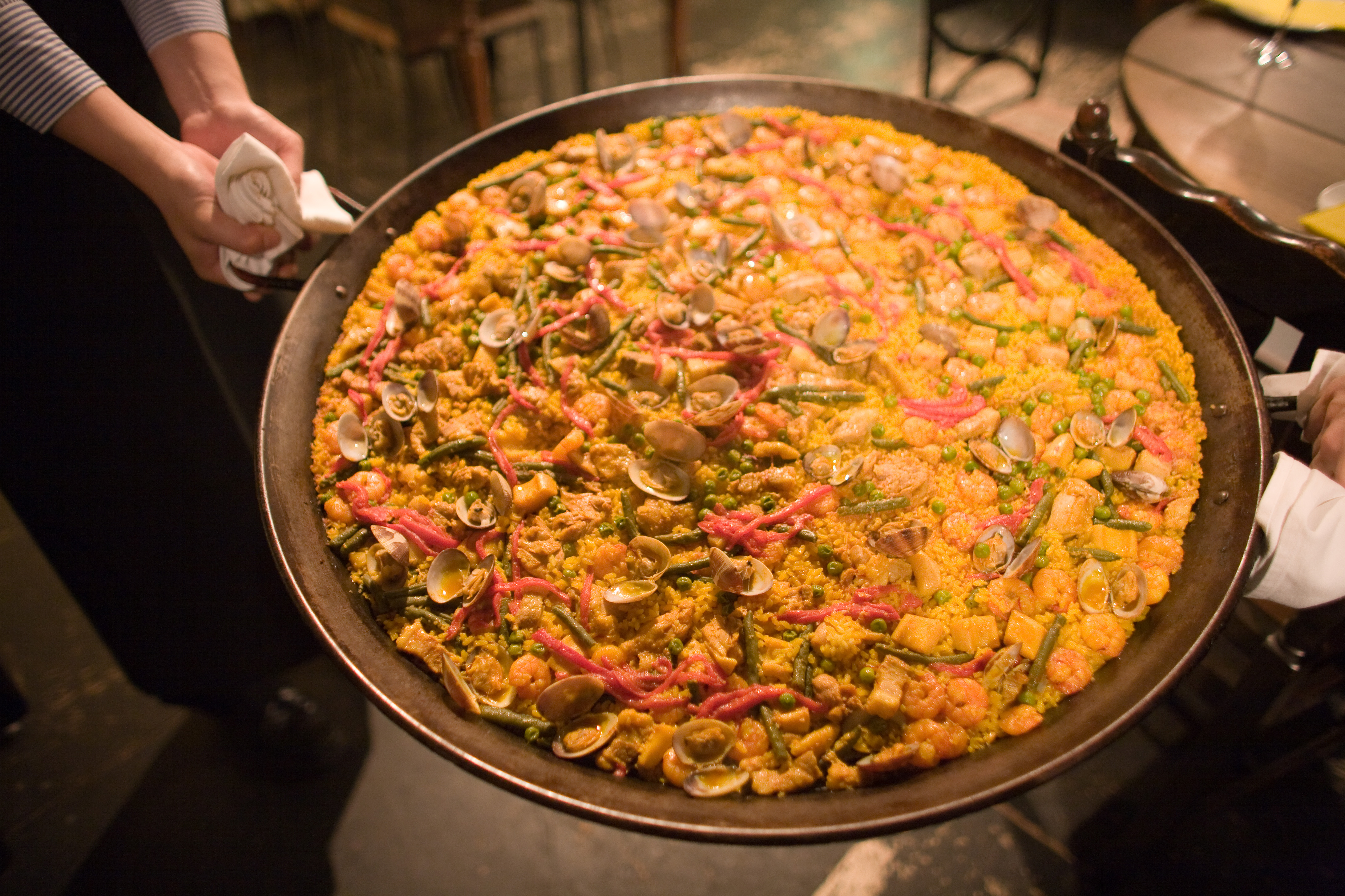 Paella